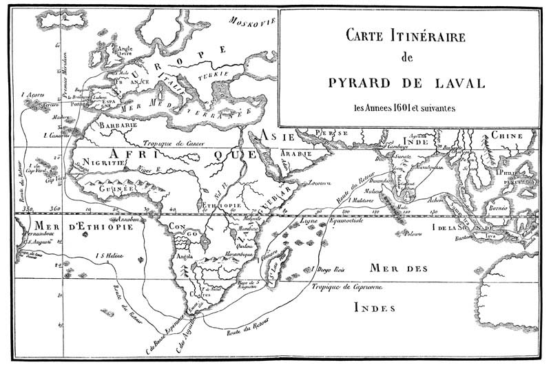 Map showing the travel of Pyrard de Laval (reproduction of a 1679 map).